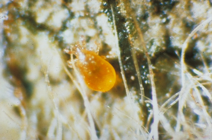 Parasitic mite Thyphlodromus pyri (Mesostigmata)